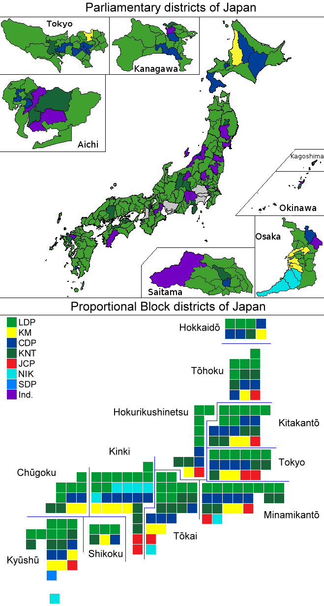 Map of the single member districts and proportional block results of the 2017 Japanese general election. Liberal Democratic Party (LDP) Kōmeitō (KM) Constitutional Democratic Party (CDP) Kibō no Tō (KNT) Japanese Communist Party (JCP) Nippon Ishin no Kai (NIK) Social Democratic Party (SDP) Independent (Ind)